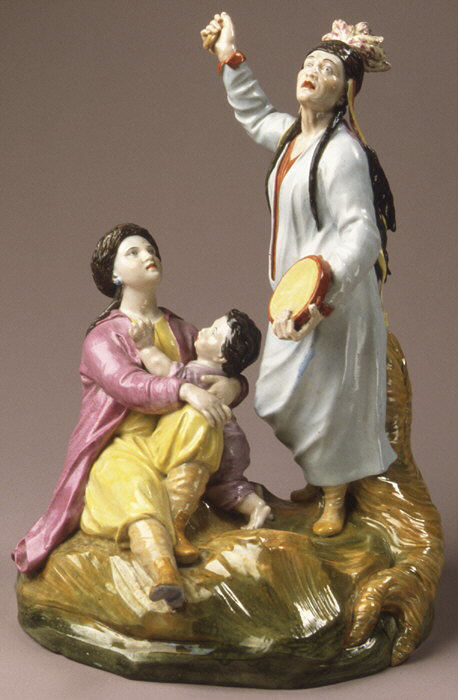 Russian, St. Petersburg; Group; Ceramics-Porcelain